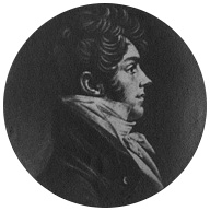 Portrait of Senator Richard Brent of Virginia